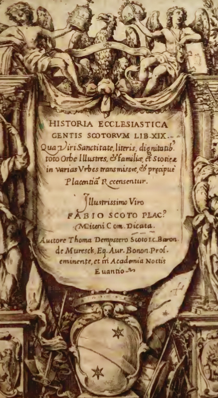 1625 volume by Dempester containg entry on a St Lesmo